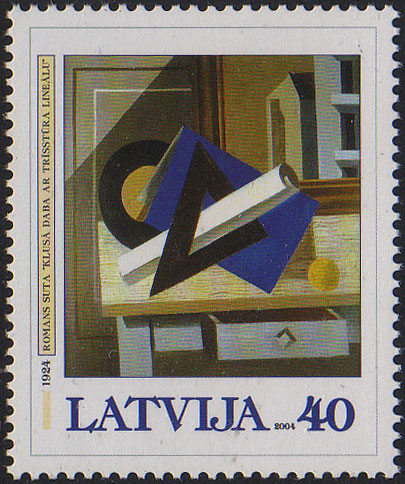 Latvian postage stamp depicting 1924 painting "Klusā daba ar trīsstūra lineālu" (Stilleben with triangular ruler) by Romans Suta.